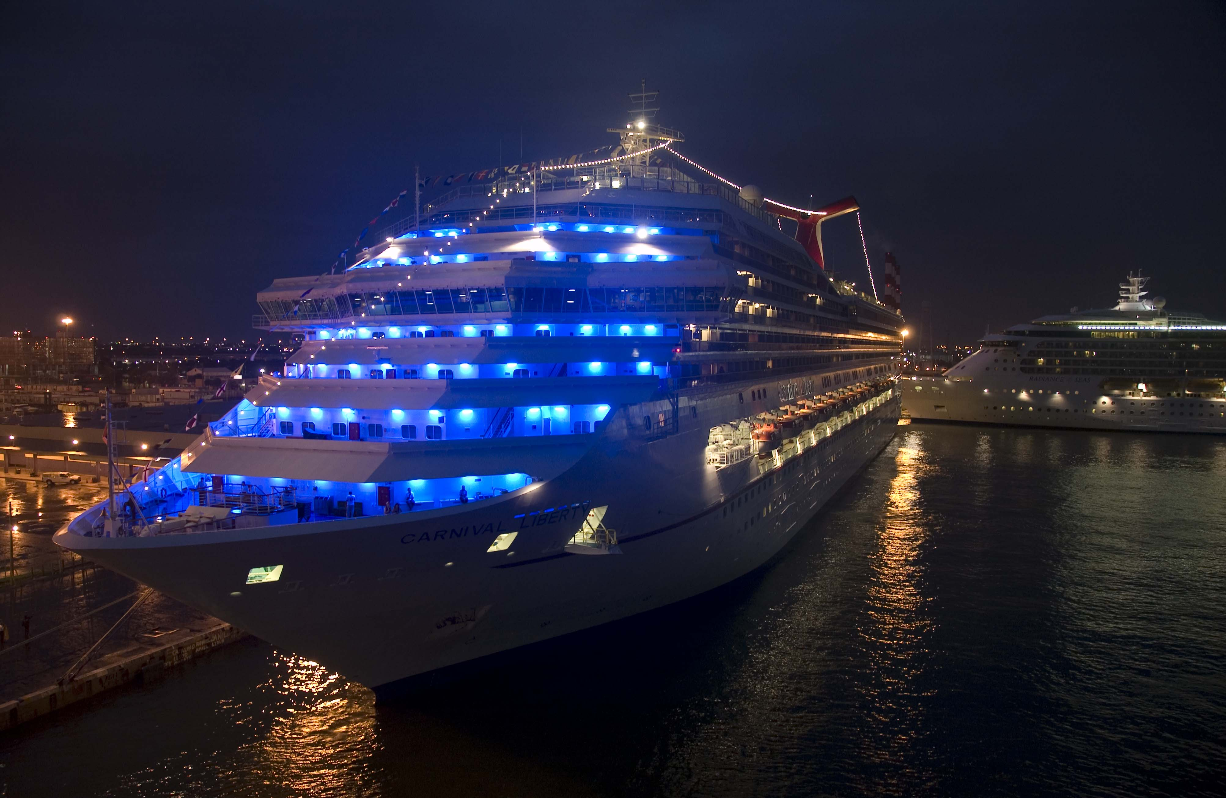 Carnival Liberty docked in Ft. Lauderdale very early morning.